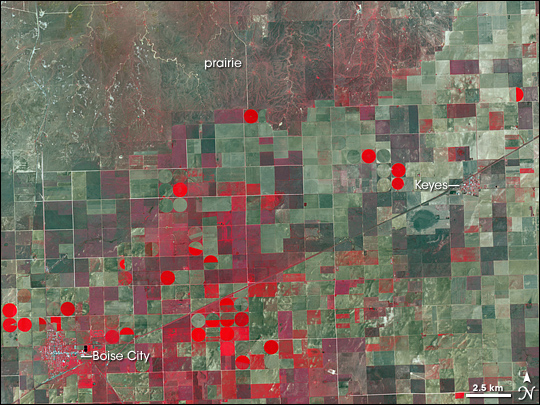 "In the second week of August 2008, the western Oklahoma Panhandle got just enough rain to ease the region’s drought status from “exceptional” to “extreme“..." Vegetation patterns recorded by the Advanced Spaceborne Thermal Emission and Reflection Radiometer (ASTER) on NASA’s Terra satellite in this image from August 14, 2008.